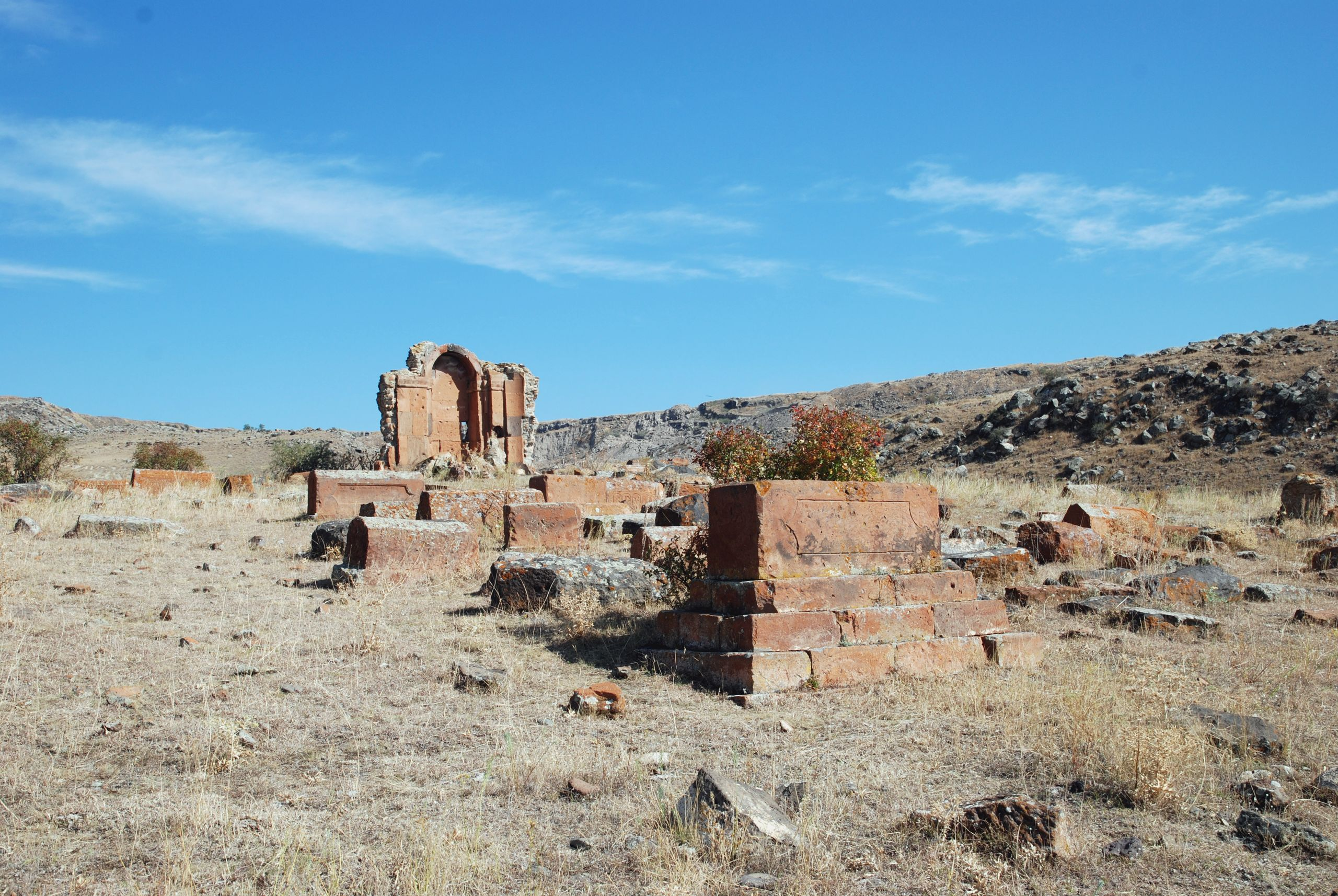 Marmashen, north chapel